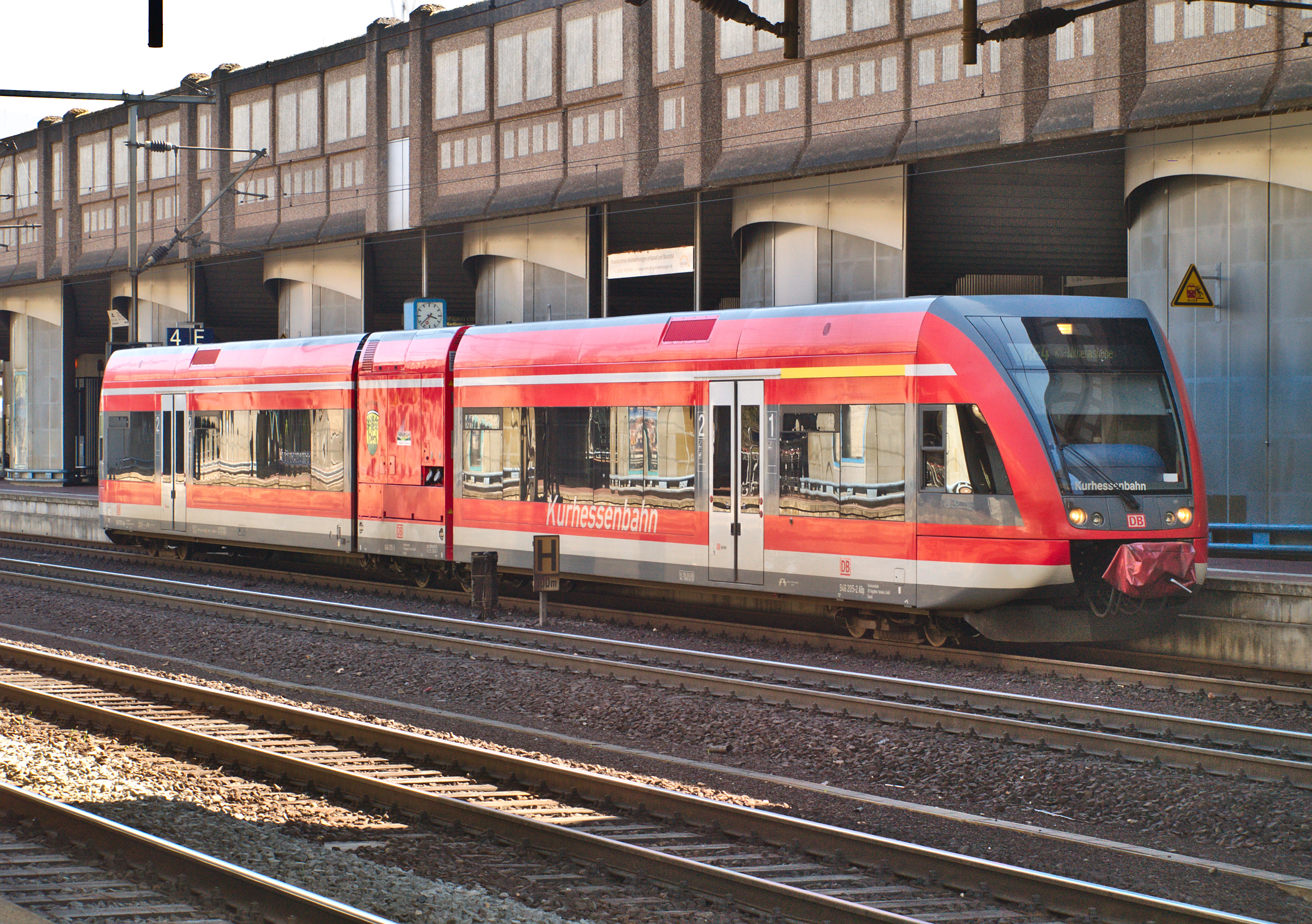 646 205-5, a diesel-electric Stadler GTW owned by the Kurhessenbahn, in Kassel Wilhelmshöhe station.